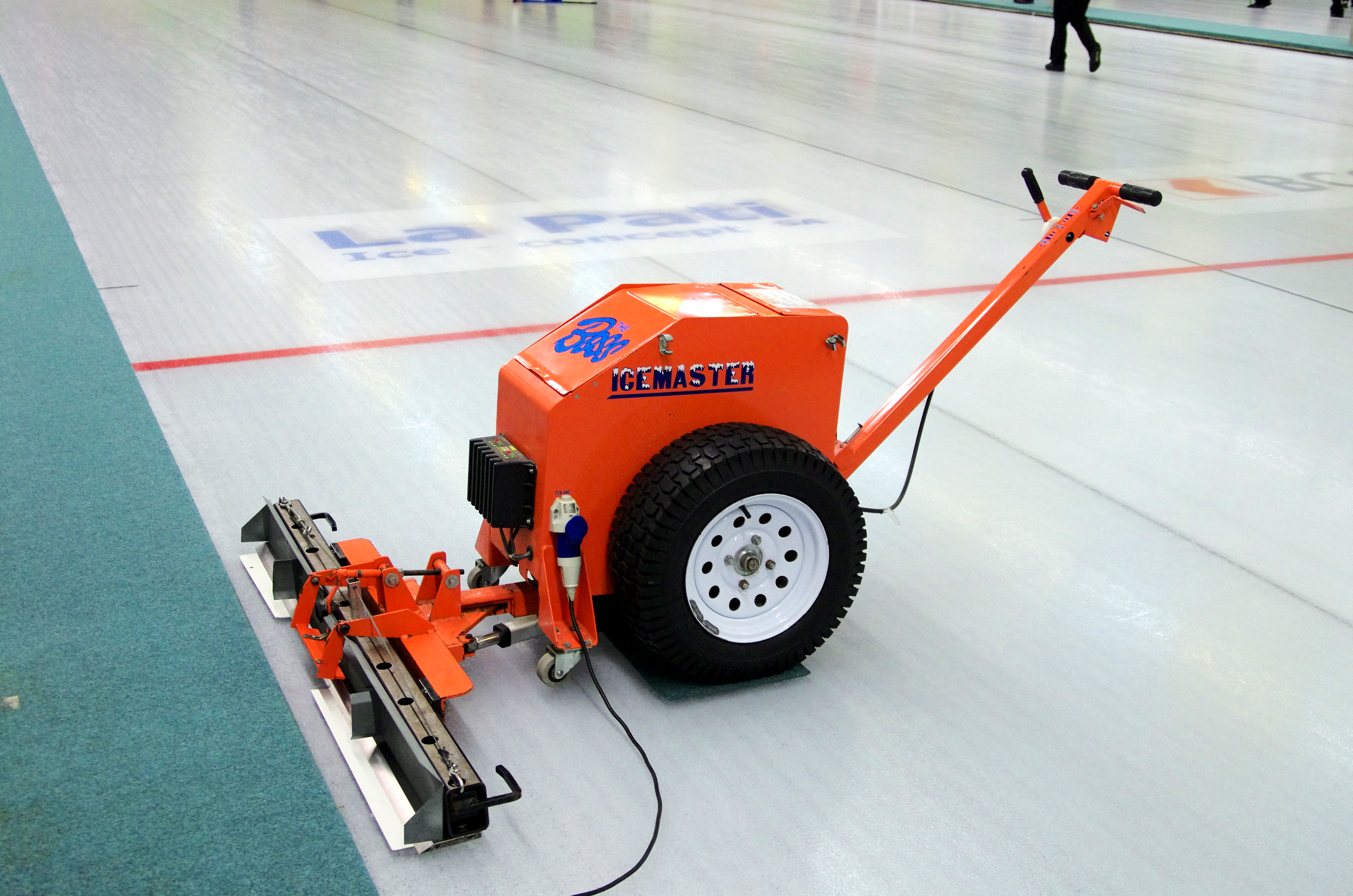 Swisscurling League 2012/2013 - Round 2 - Geneva